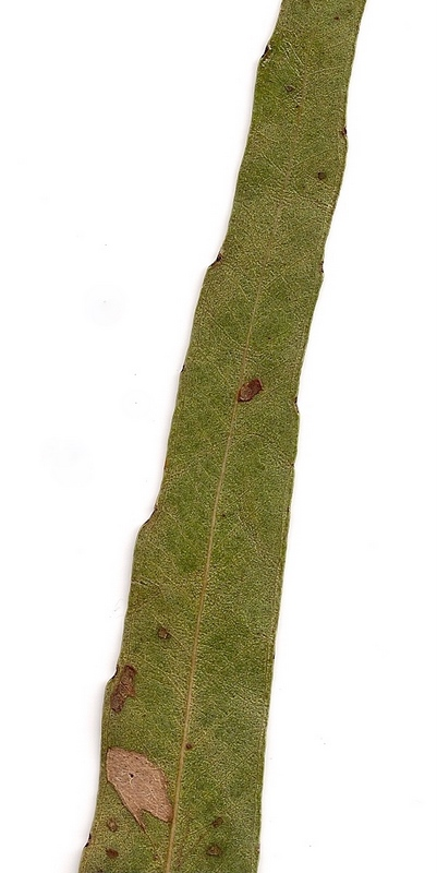 Eucalyptus quadrangulata leaf (part) showing wavy edges, from Jamberoo Mountain Road